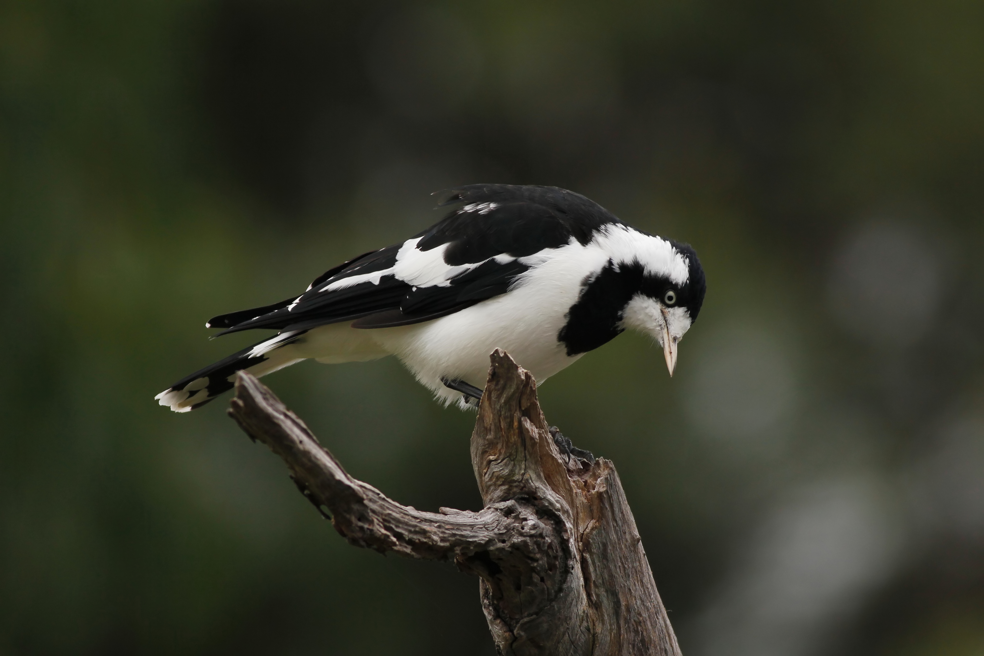 A female Magpie-lark in Braeside Park, Melbourne, Victoria, Australia.